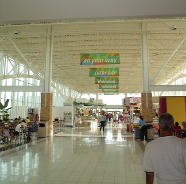 This is the interior of the newly rebuilt Belvidere Oasis.